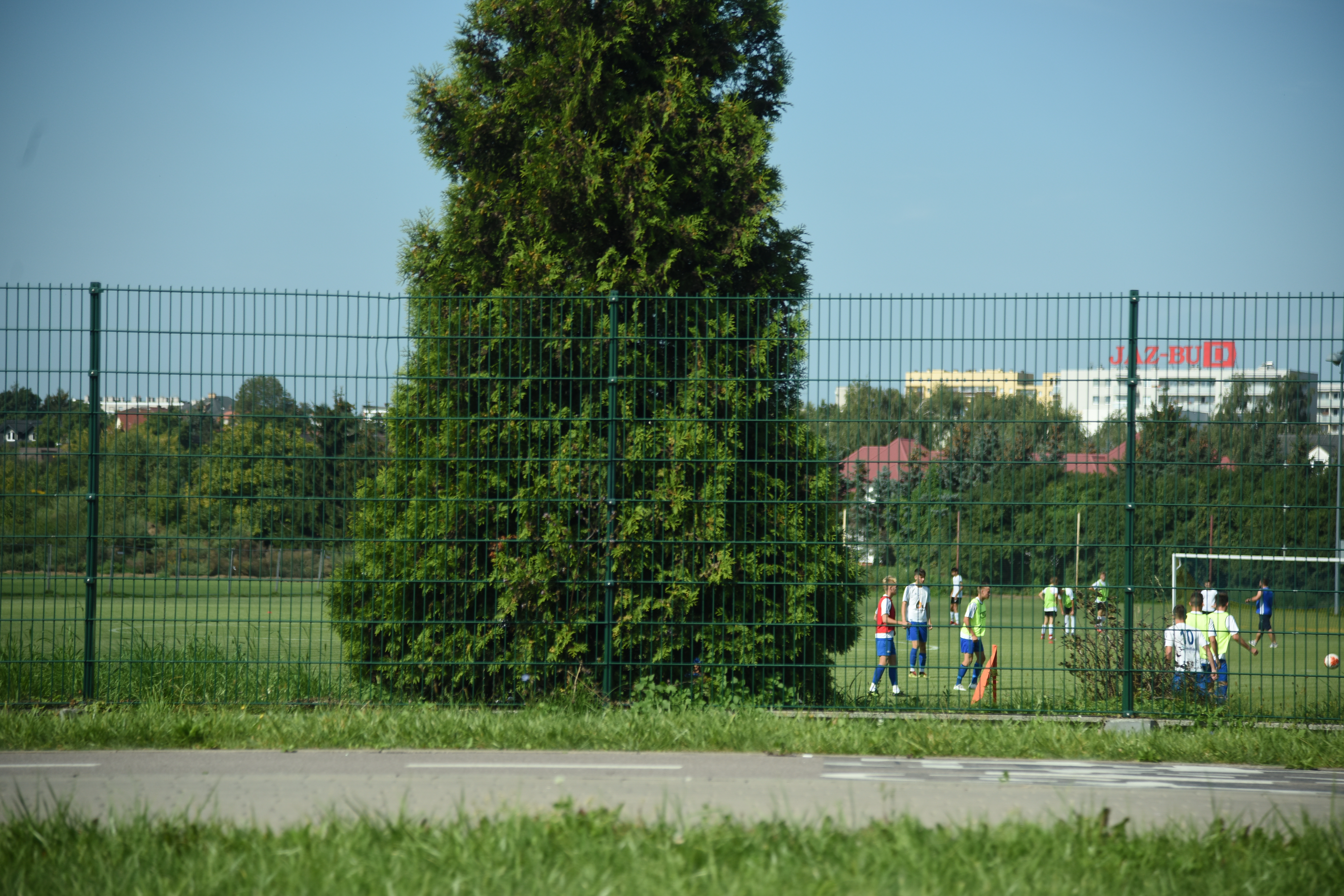 MOSP Białystok, Świętokrzyska street, Bialystok